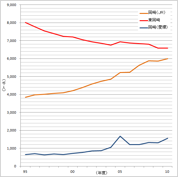 Vehicle ridership of Okazaki and Higashi Okazaki Station.